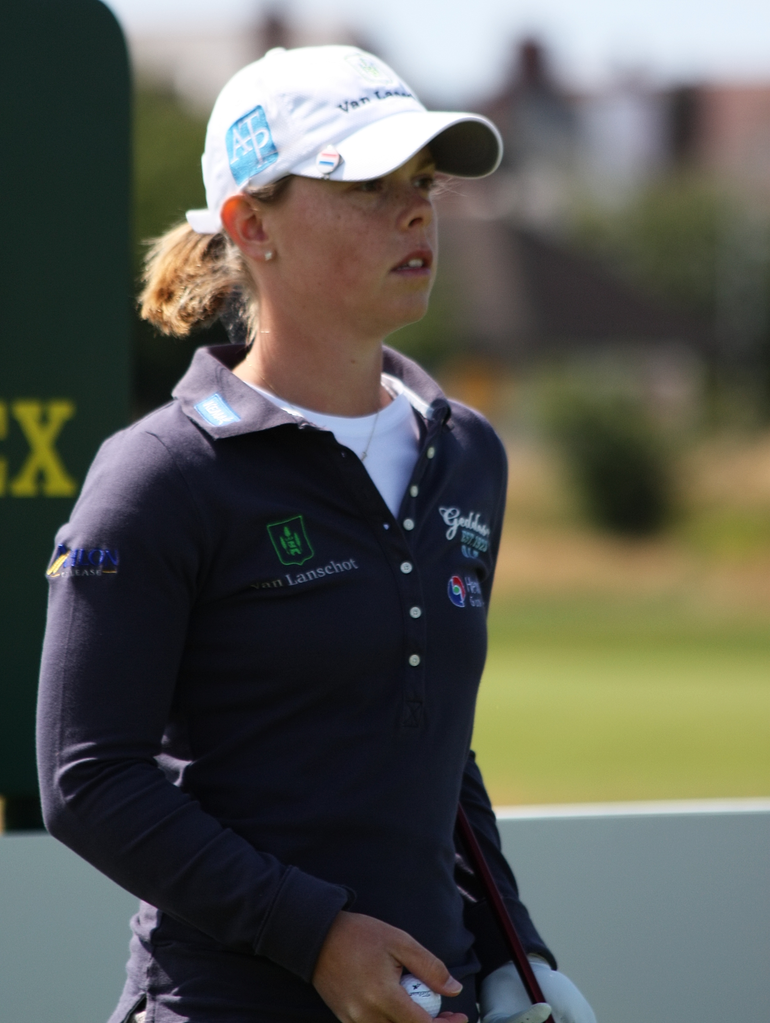 LYTHAM ST ANNES, UNITED KINGDOM - JULY 27: Christel Boeljon of Netherlands on the 16th tee during first practice round before 2009 Ricoh Women's British Open held at Royal Lytham & St Annes on July 27, 2009 in Lytham St Annes, England. (Photo by Wojciech Migda)